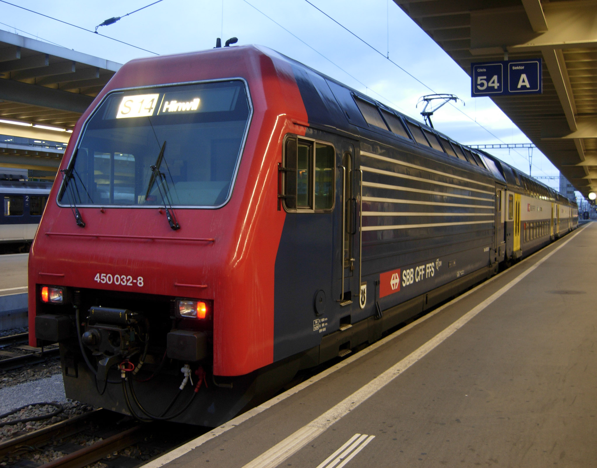 Re 450 (and matching trainset) of the SBB in Zürich Hauptbahnhof